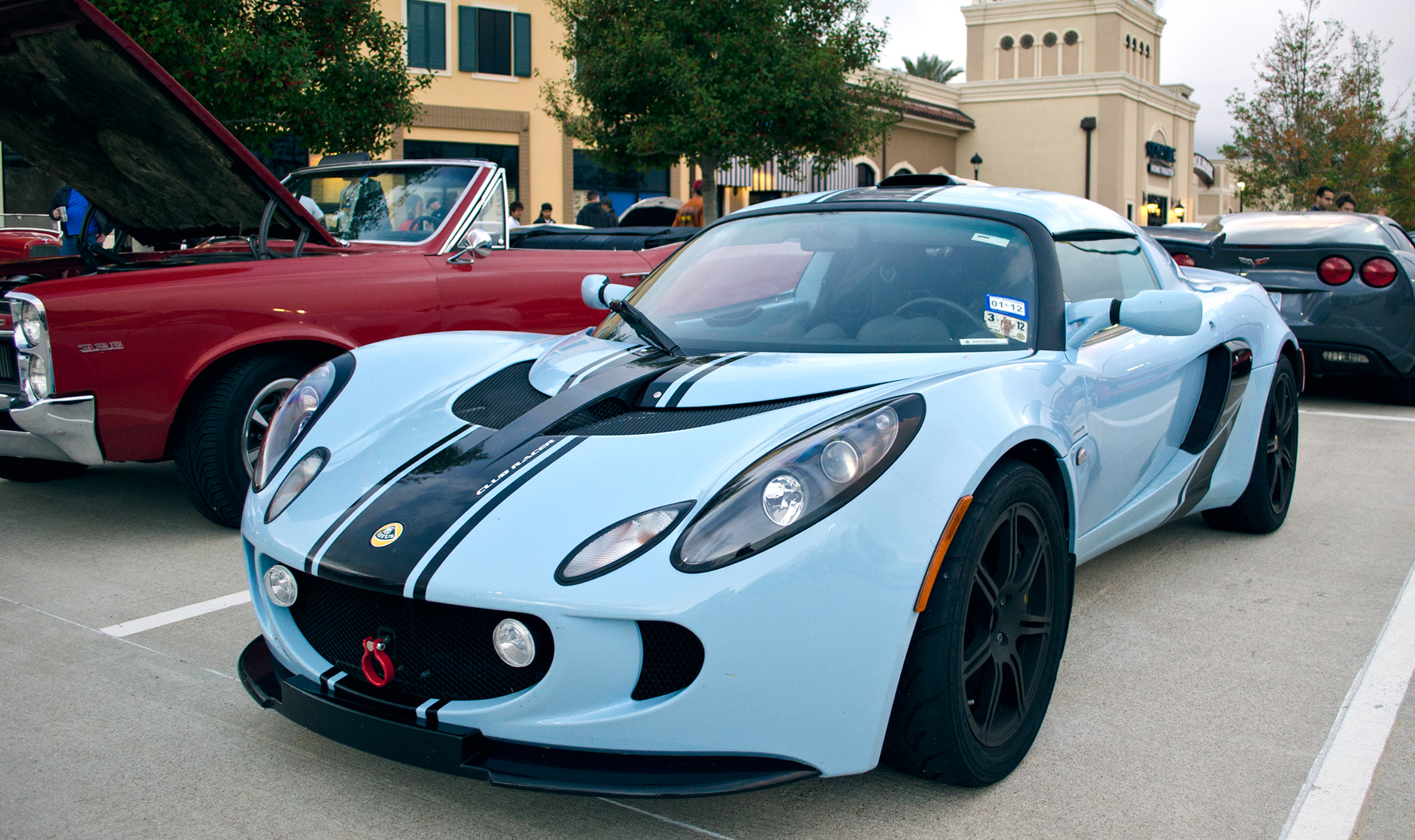 Houston Coffee and Cars, January 2012